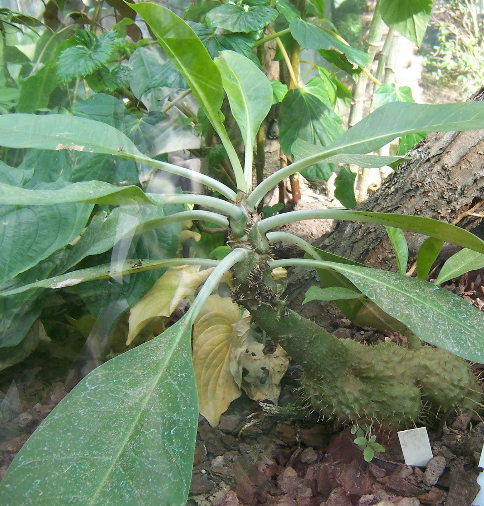 Myrmecodia platytyrea, habitus